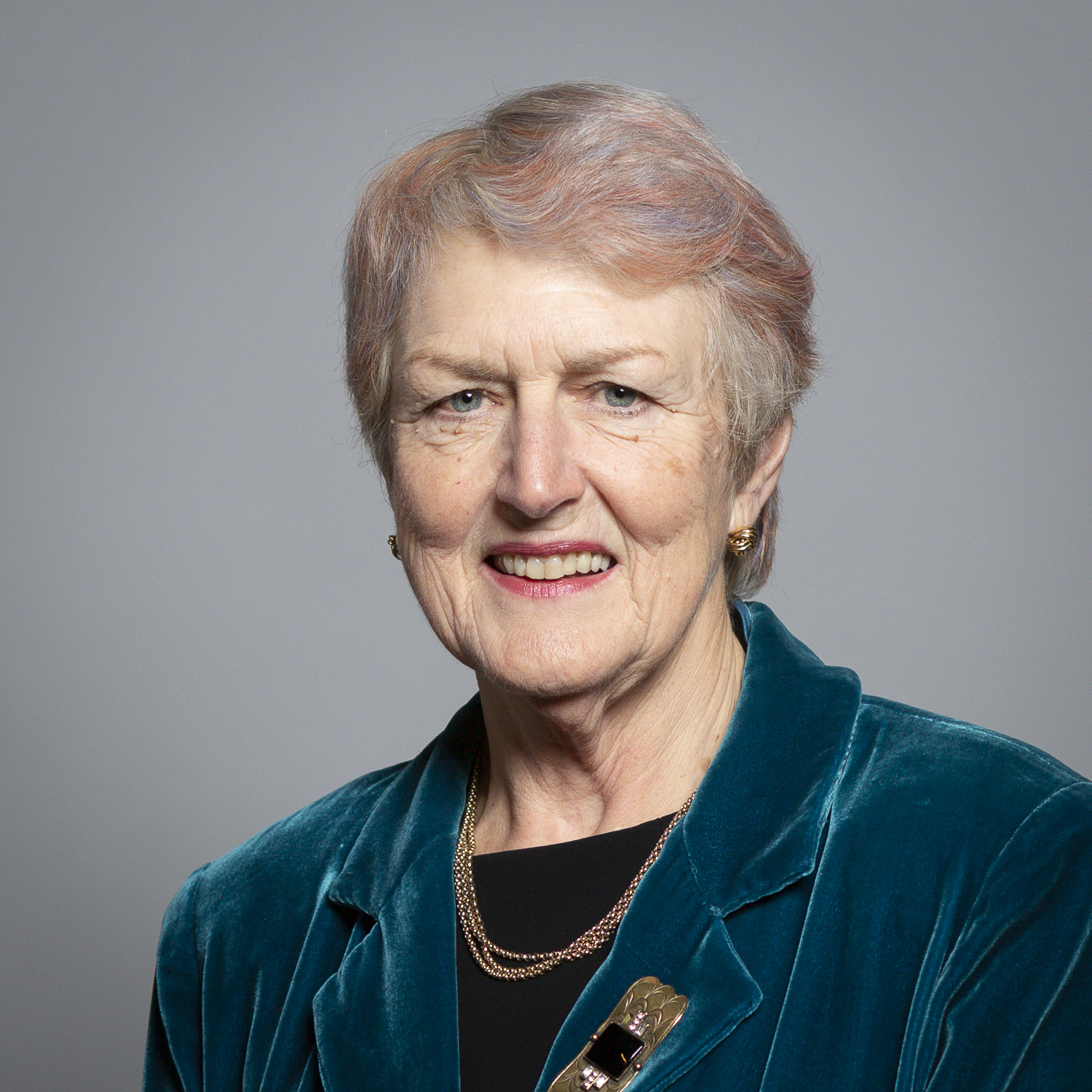 Official portrait of Baroness Young of Old Scone 1×1 portrait of Baroness Young of Old Scone